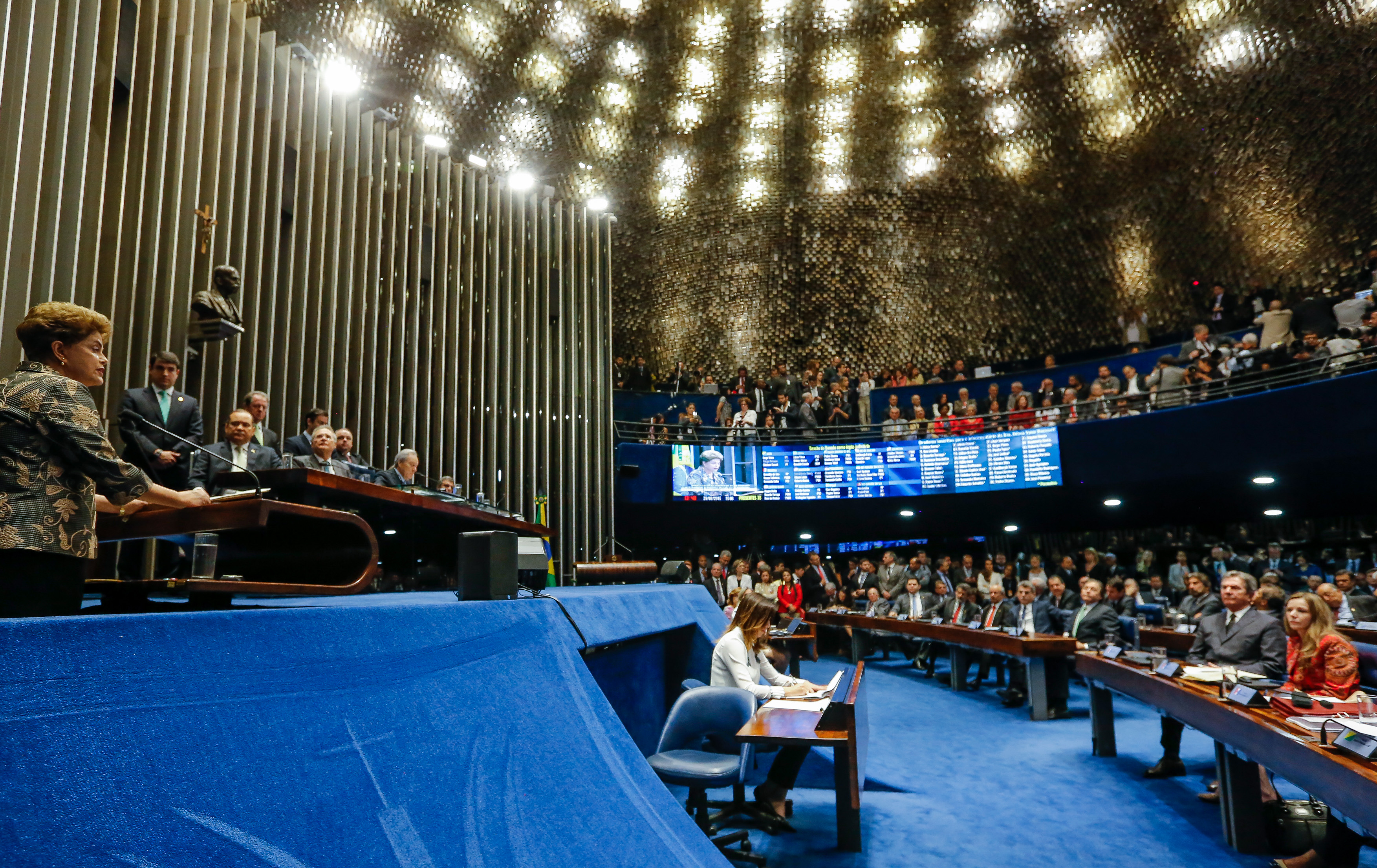 President of Brazil Dilma Rousseff in the Senate during voting of Denúncia 1/2016. (Brasília - DF, 29 August 2016).